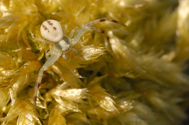 Runcinia grammica from Commanster, Belgian High Ardennes .